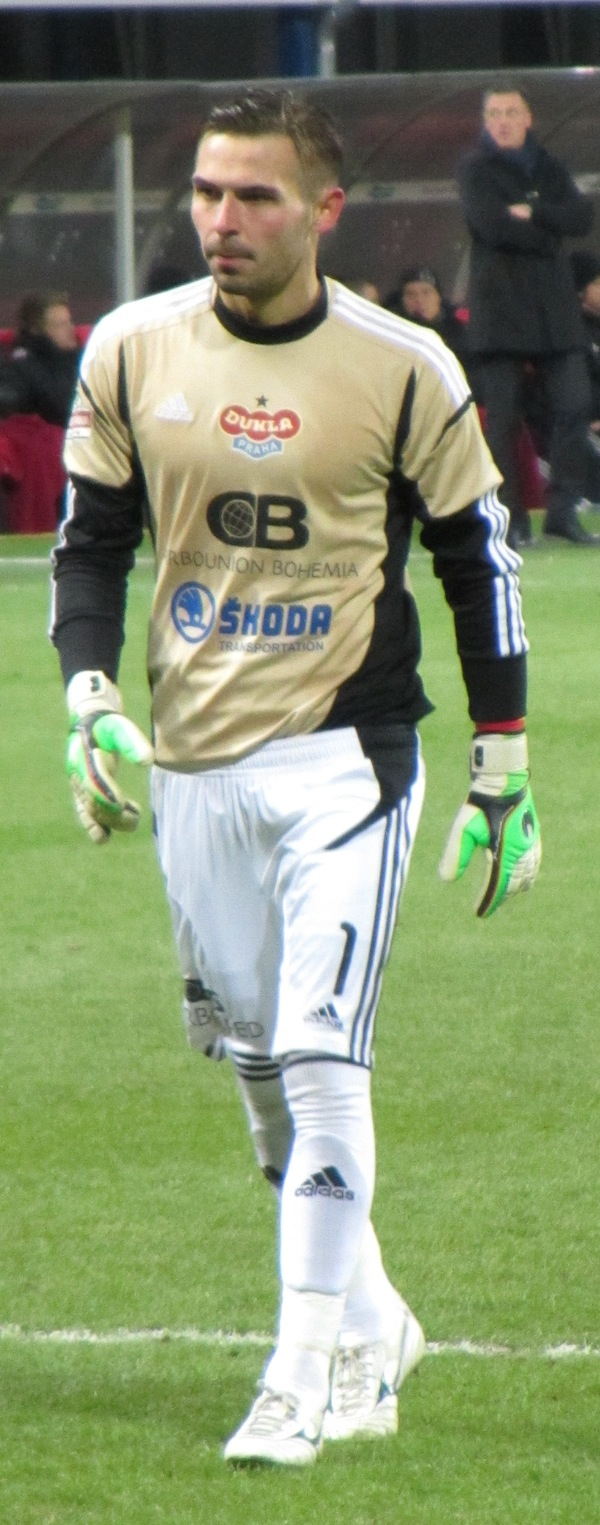 Filip Rada of FK Dukla Praha in the match against FC Viktoria Plzeň